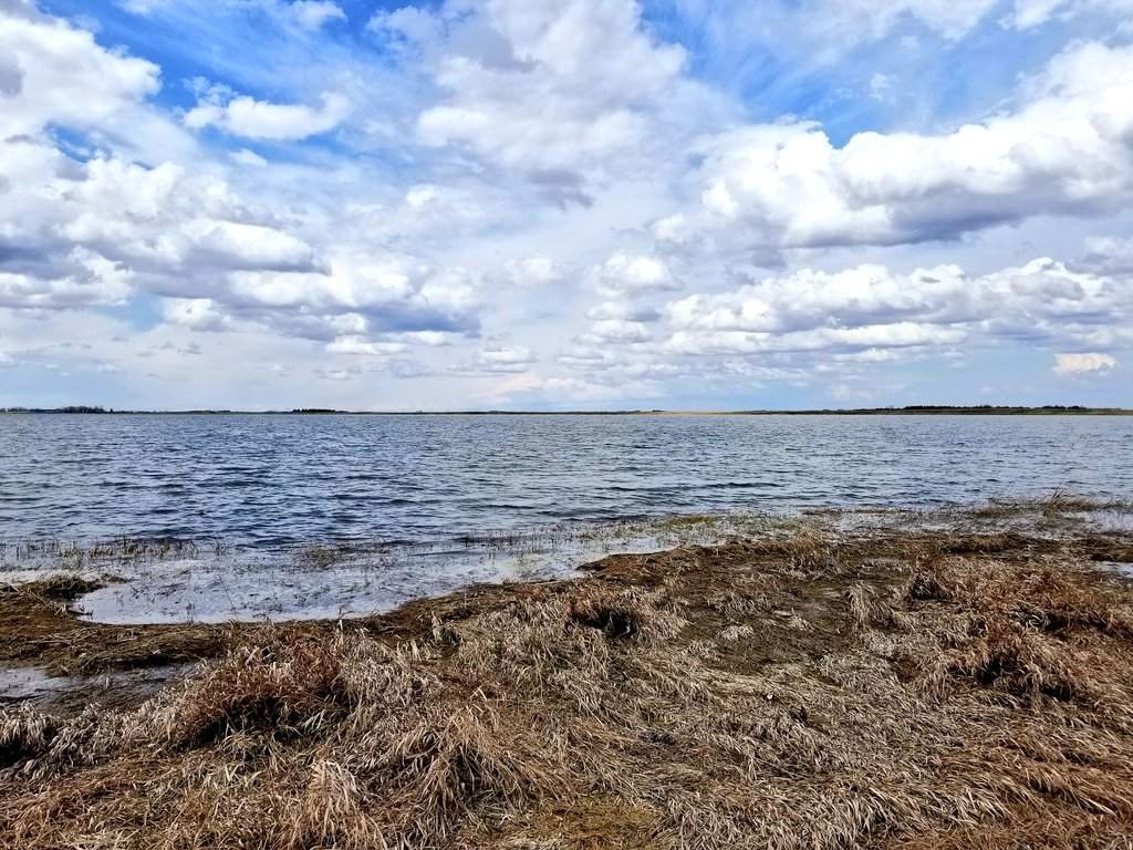 The southeast shore of Salt Lake, Minnesota, with marsh plants